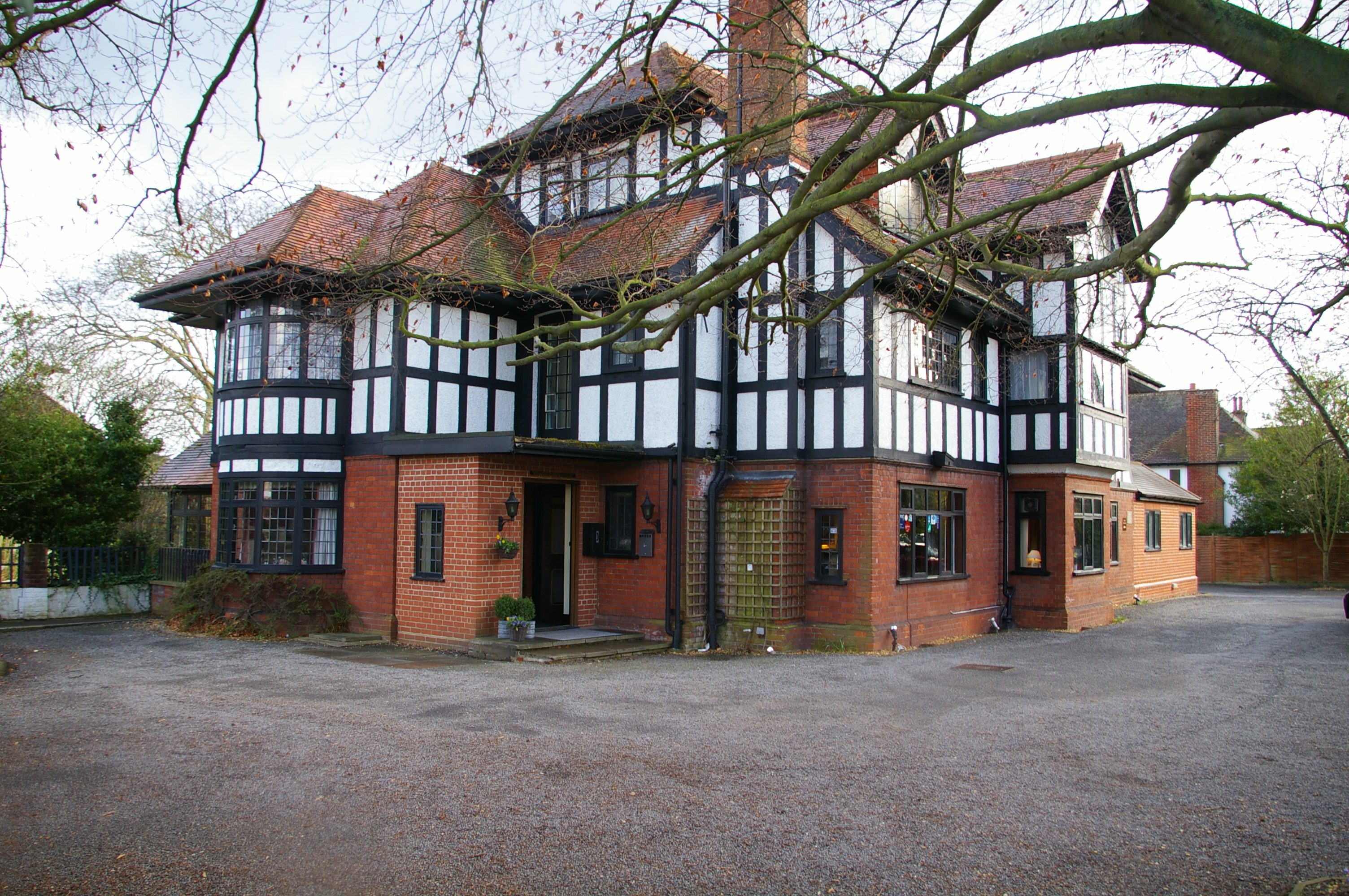 Cambridge Lodge Hotel There are persistent rumours of plans to replace this hotel with a block of flats, but for now it's still standing.